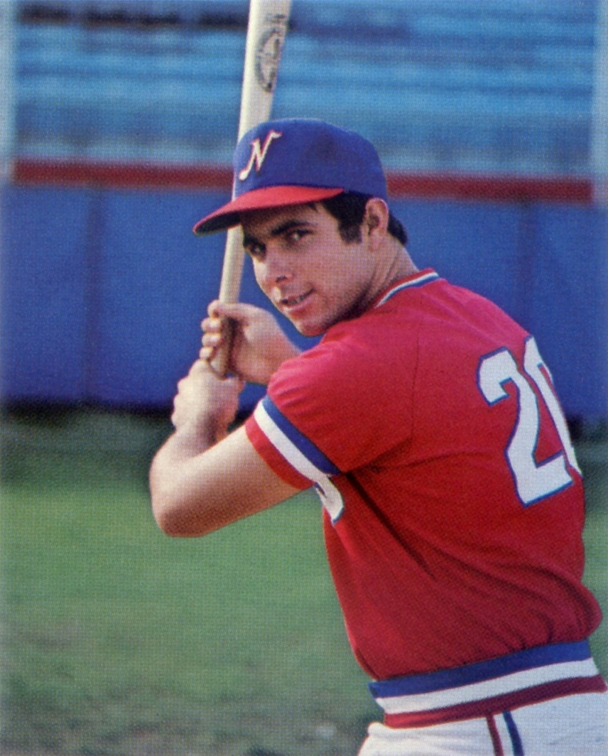 Catcher Dave Van Gorder of the 1979 Nashville Sounds Minor League Baseball team of the Southern League